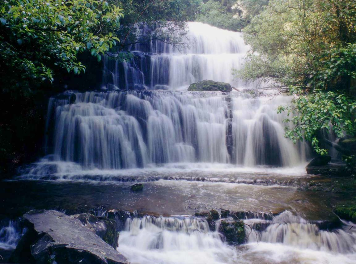 Purakaunui Falls, in the Catlins, New Zealand. Photograph taken in about November 2000.